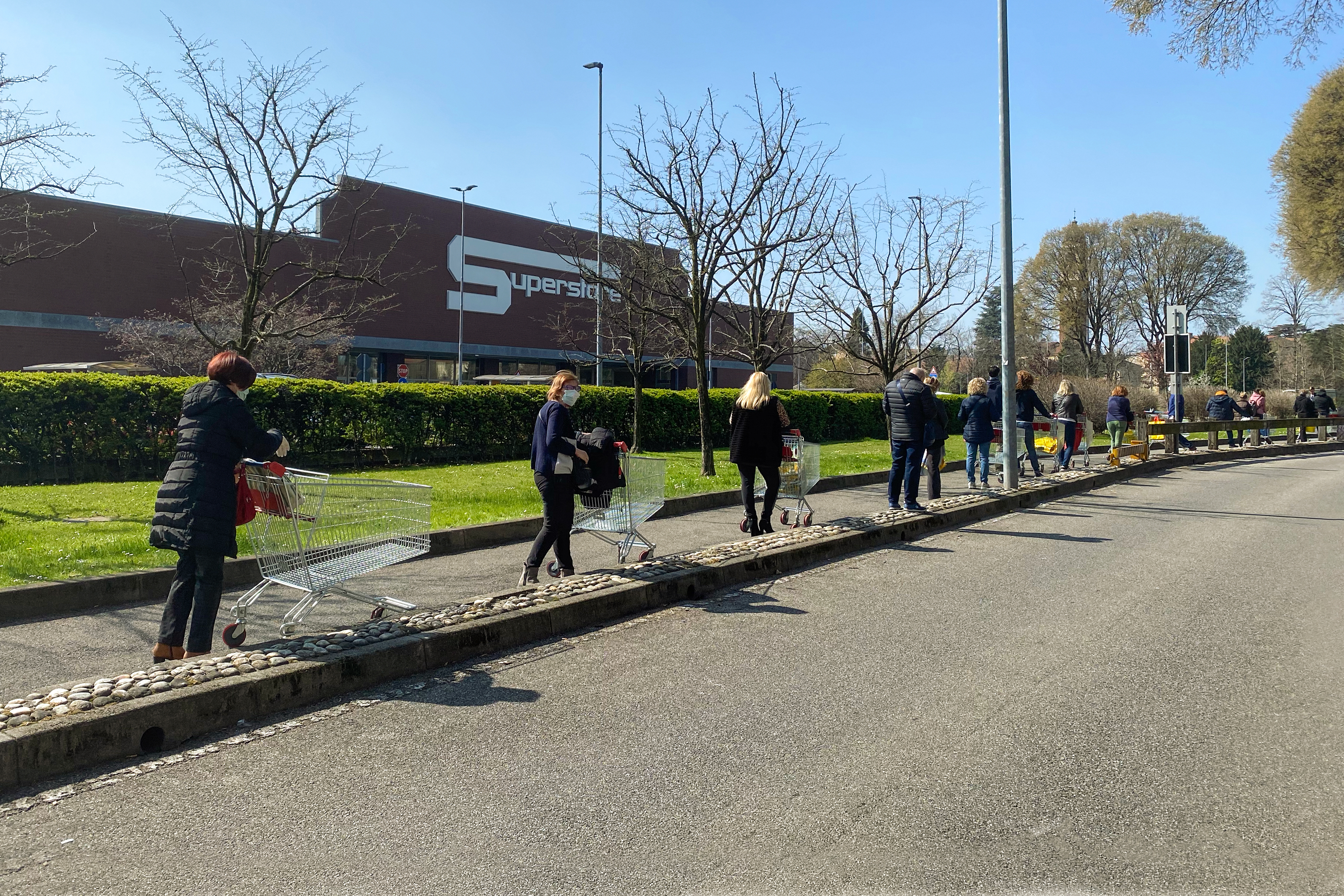 Italy about 100 people queuing at a supermarket during coronavirus outbreak march 2020